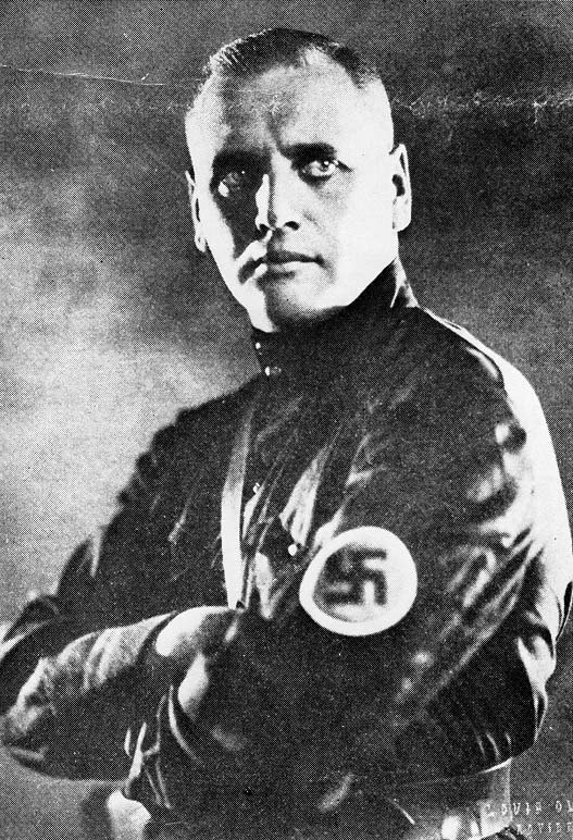 Anastasy Andreyevich Vonsyatsky - leader VFO